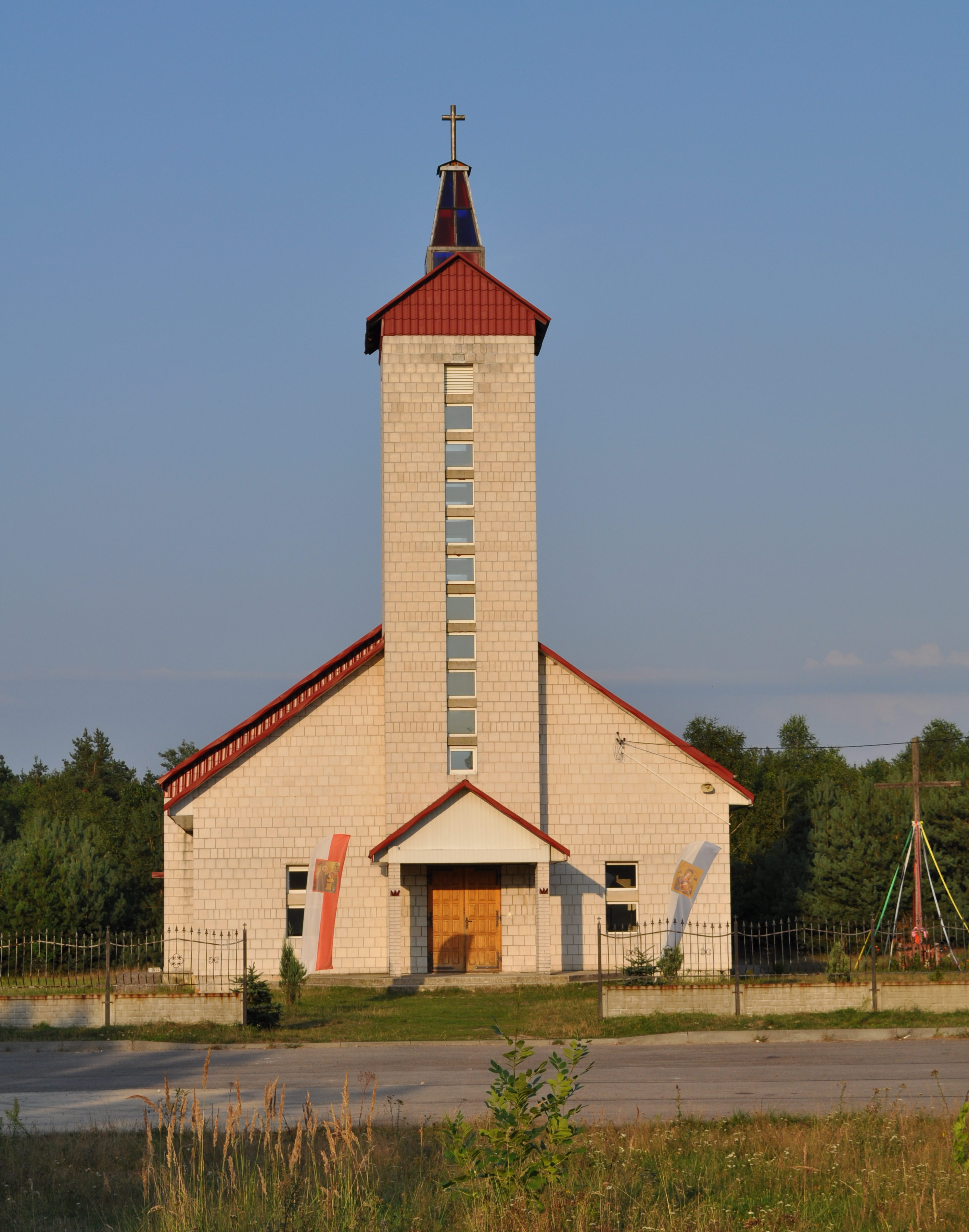 Church in Lgoczanka